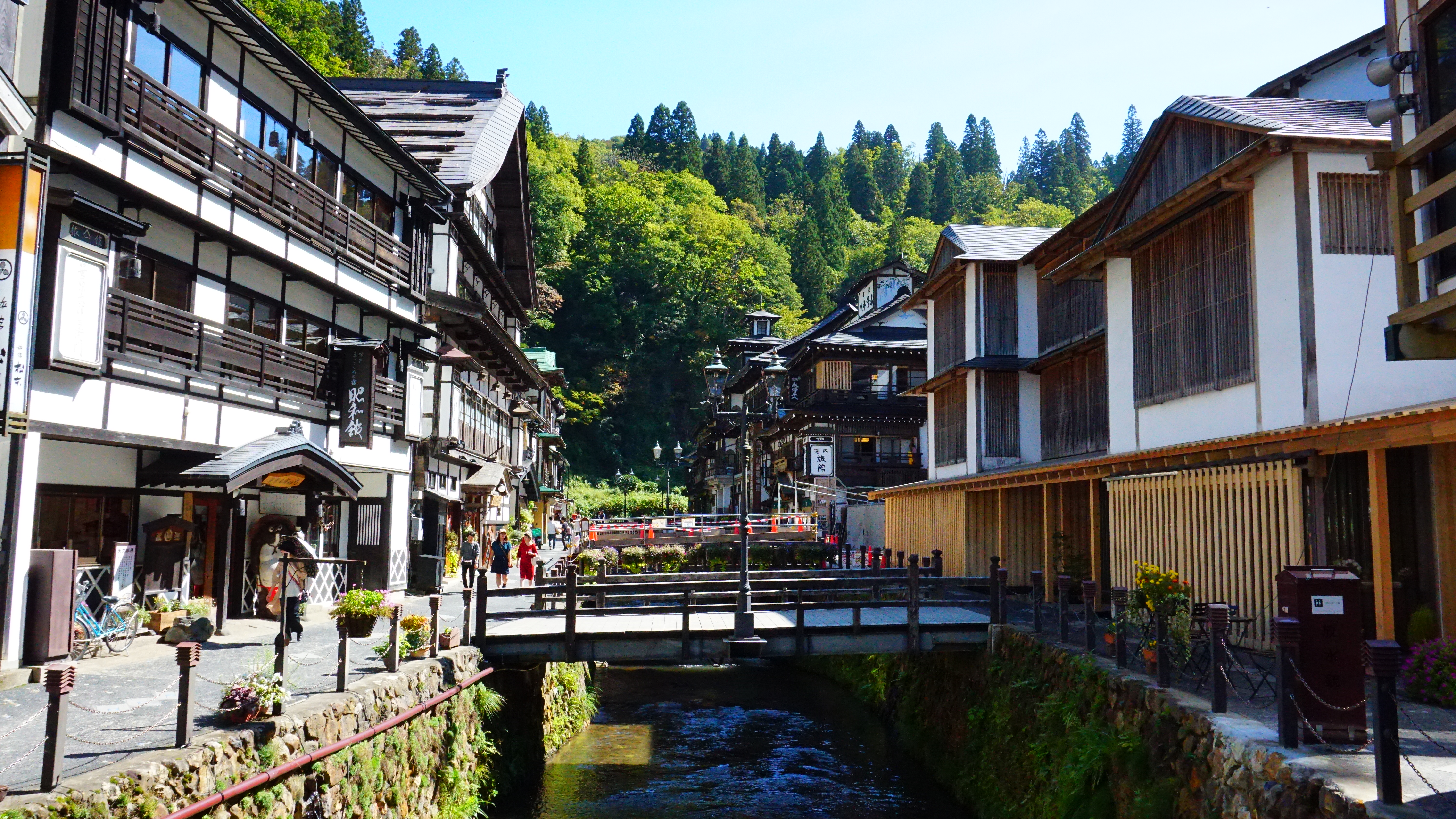 Ginzan Onsen in Obanazawa City, Yamagata, Japan Sony ILCE-6300